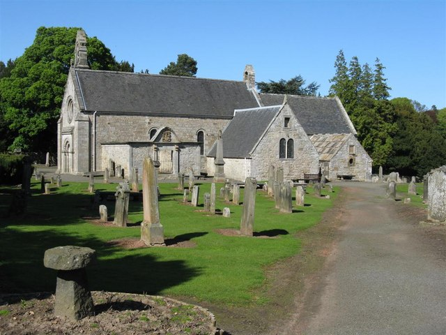 Abercorn Church A mostly post-reformation church, but with some Norman elements.